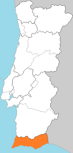 Region of Algarve